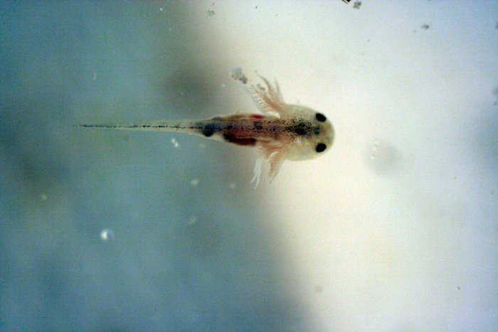 few days old baby axolotl